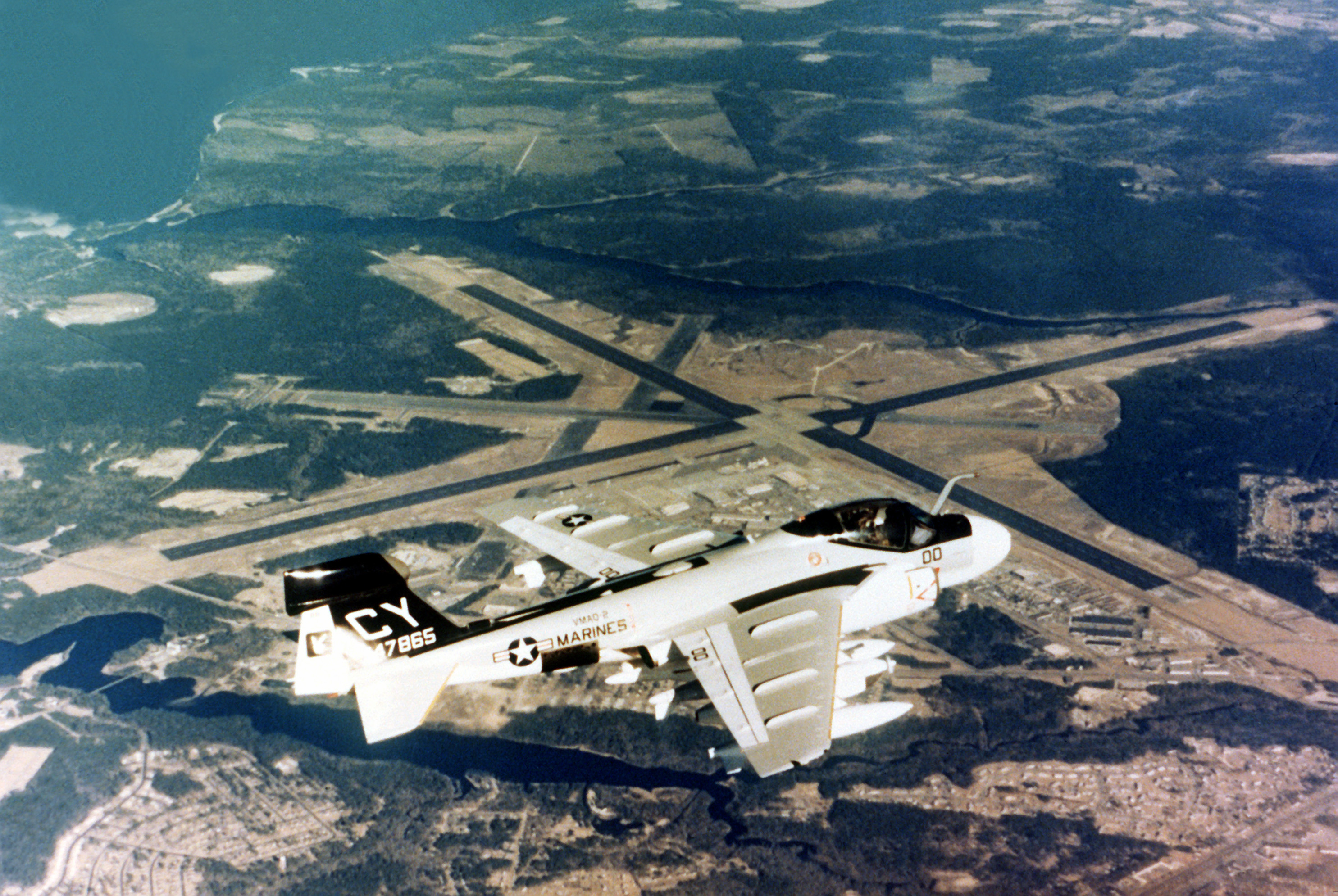 A U.S. Marine Corps Grumman EA-6A Intruder (BuNo 147865) from Marine electronic countermeasures squadron VMAQ-2 Playboys flying over Marine Corps Air Station Cherry Point, North Carolina (USA), on 1 December 1978. The EA-6A 147865 was retired to the MASDC as 5A0030 on 24 March 1980. 147865 came out of storage in January 1983 and flew with Naval Reserve Squadron VAQ-33 until returned for display at MCAS Cherry Point on 15 April 1992.